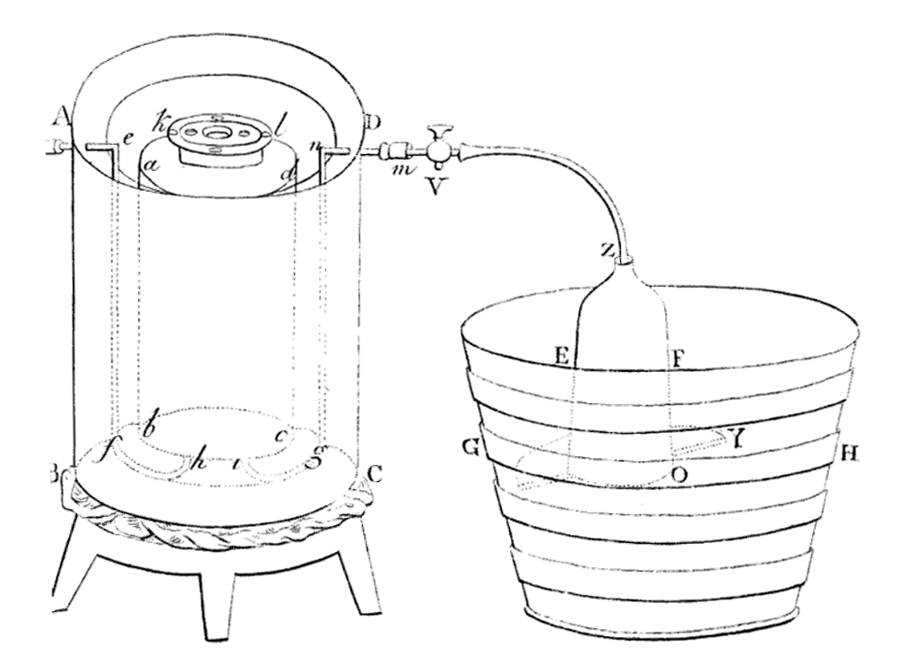 Crawford's Calorimeter, 1788